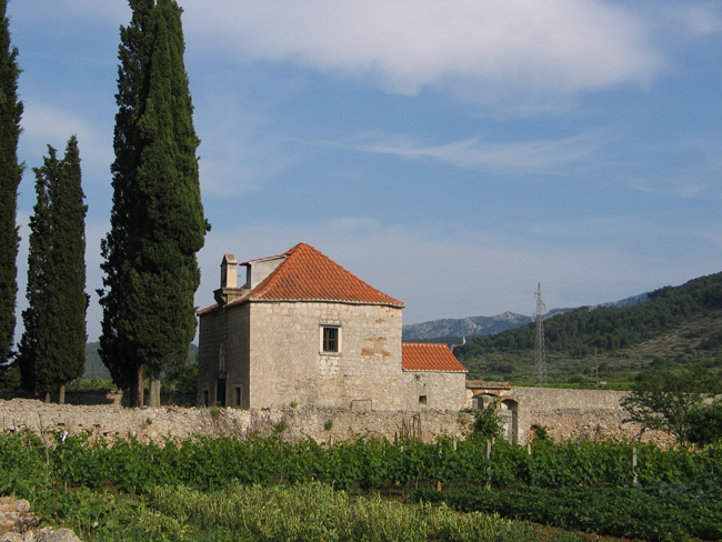 Chapel of St. Lucie, Stari Grad, Hvar